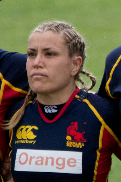 Aroa González, captain of Spain women's rugby union team, here in 2013 in Madrid.